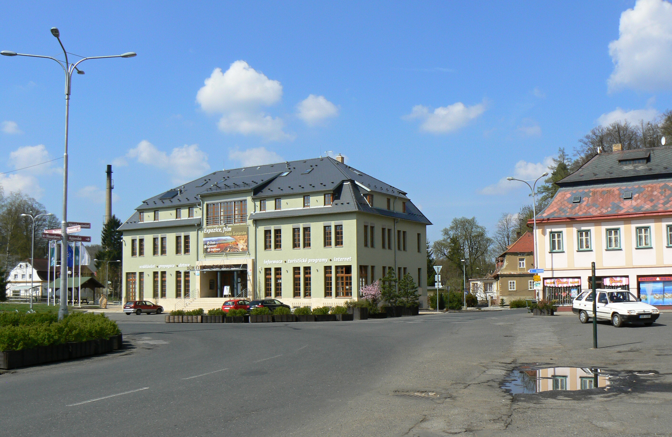 Křinice Square in Krásná Lípa before reconstruction, Děčín District